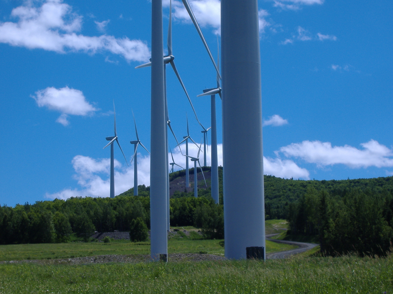 The Mars Hill Wind Farm atop Mars Hill (Maine) has 28 GE Energy 1.5 MW wind turbines.